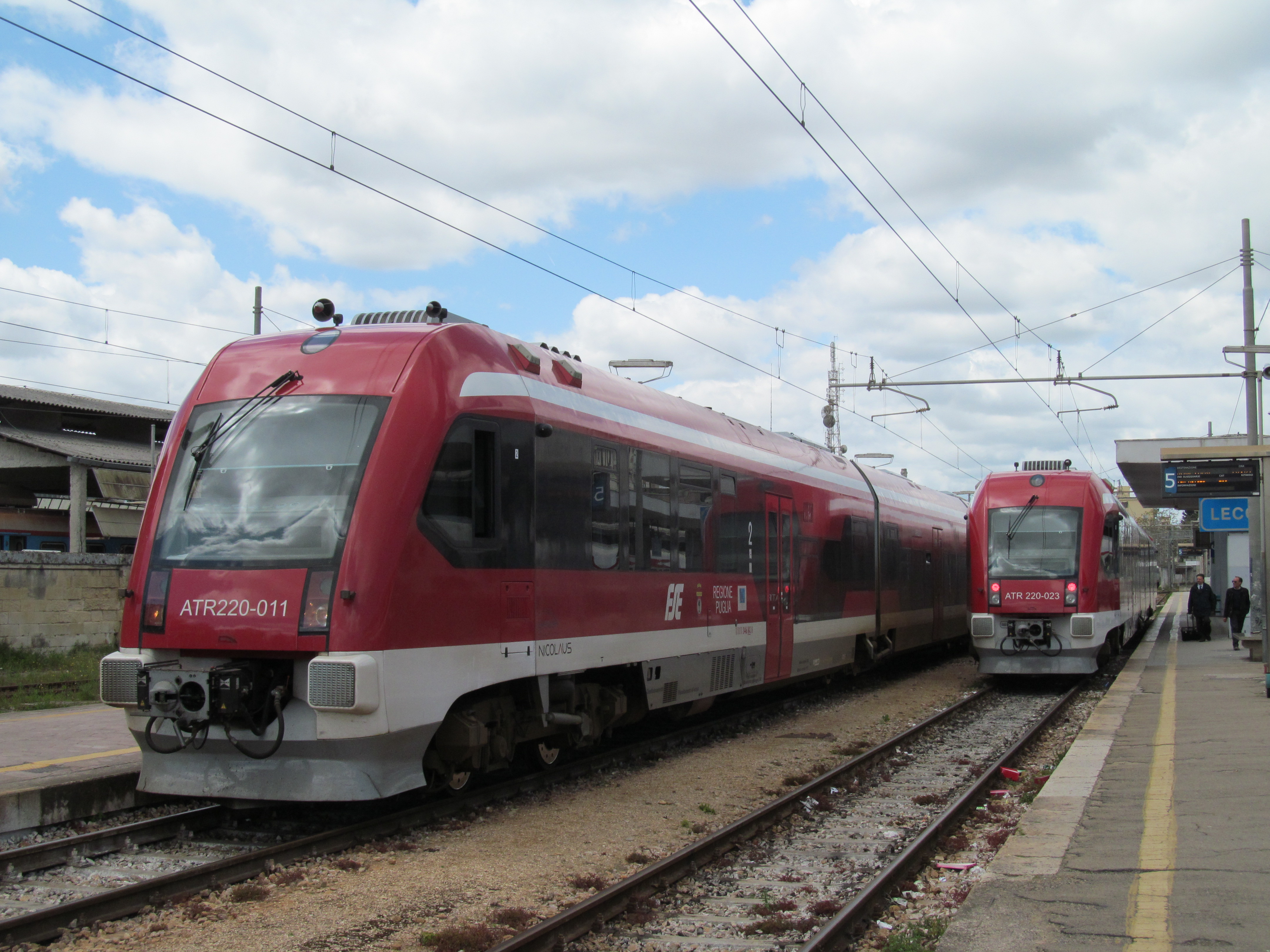 Ferrovie del Sud Est trains at Lecce station.